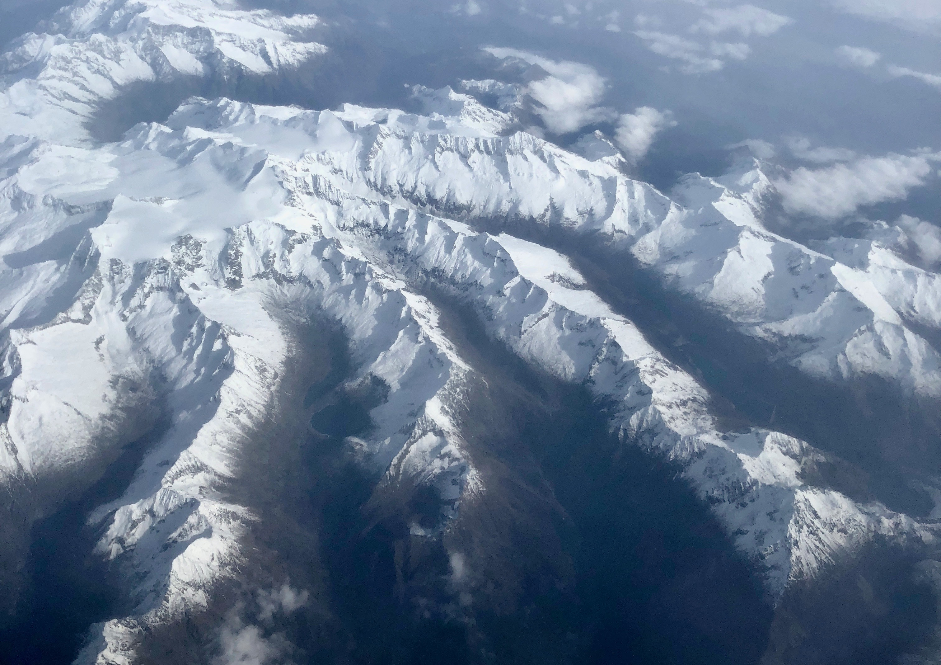 Adamello (3554 m) in the Adamello group (Southern Alpes).